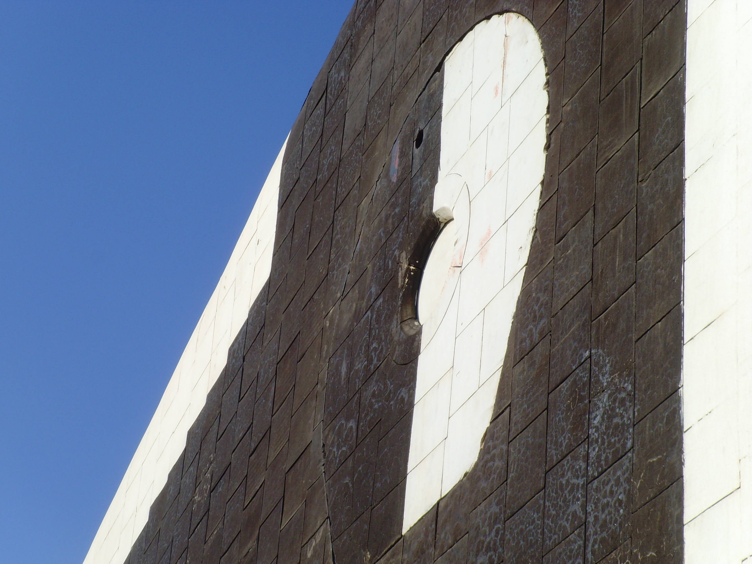 Space Shuttle Buran